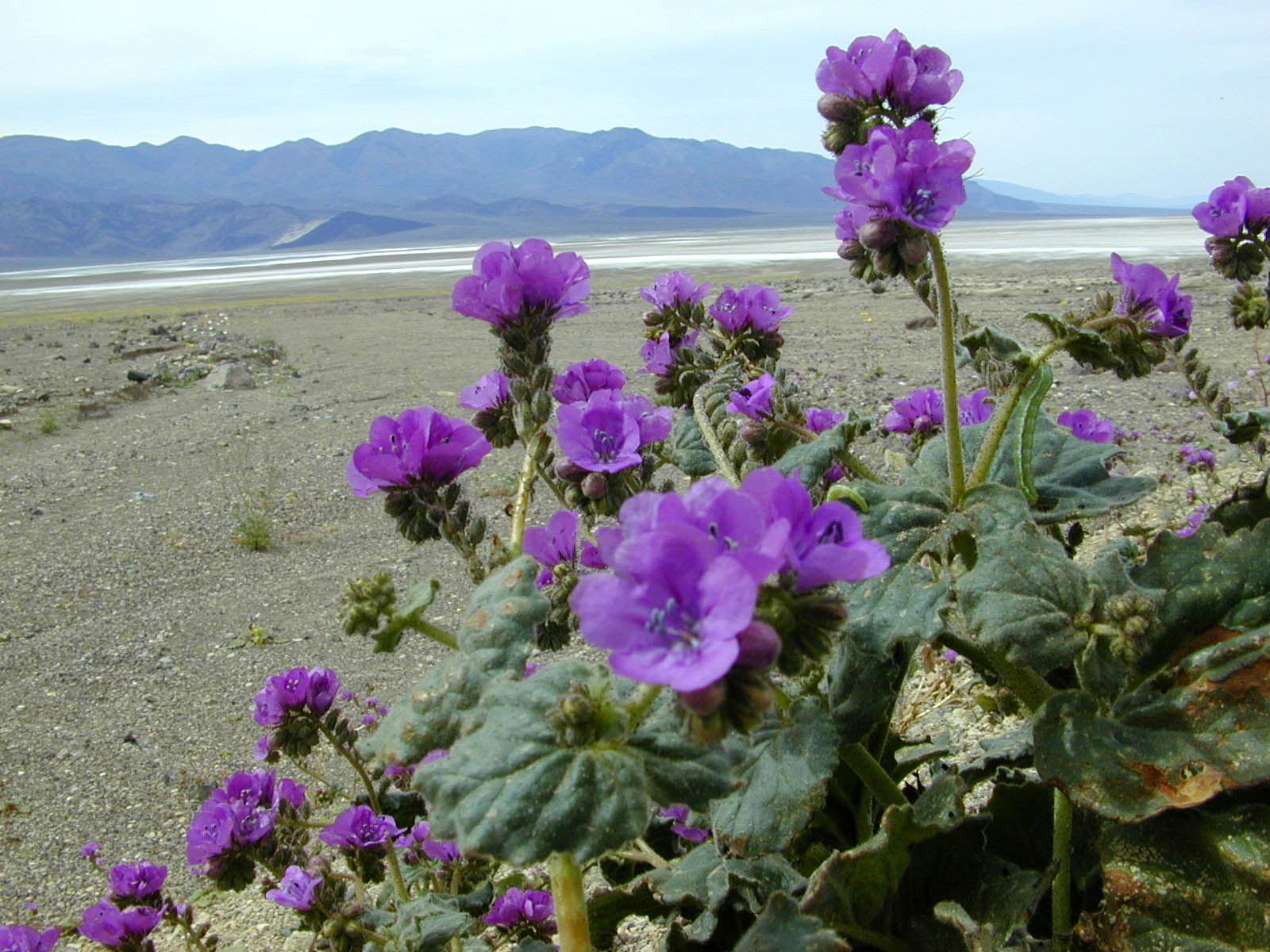 Calthaleaf Phacelia. This is the same plant as in this picture but the colors are more real. (Calflora)